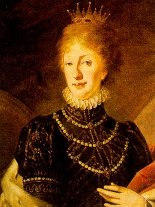 Maria Theresia of Naples-Sicily (1772-1807), 2. wife of Empereor Franz II of Holy Roman Empire (Franz I of Austria)